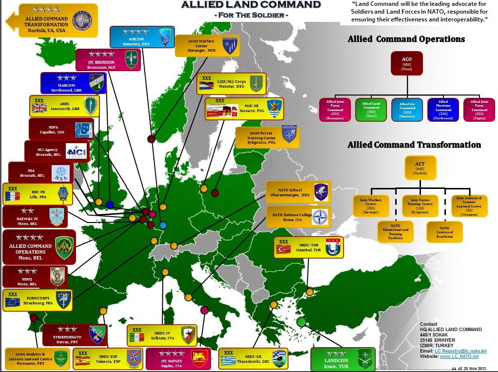 ALLIED LAND COMMAND PLACEMATTürkçe: NATO MÜTTEFİK KARA KOMUTANLIĞI